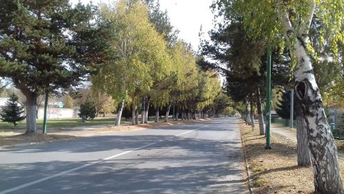 Wiki tour in Berovo